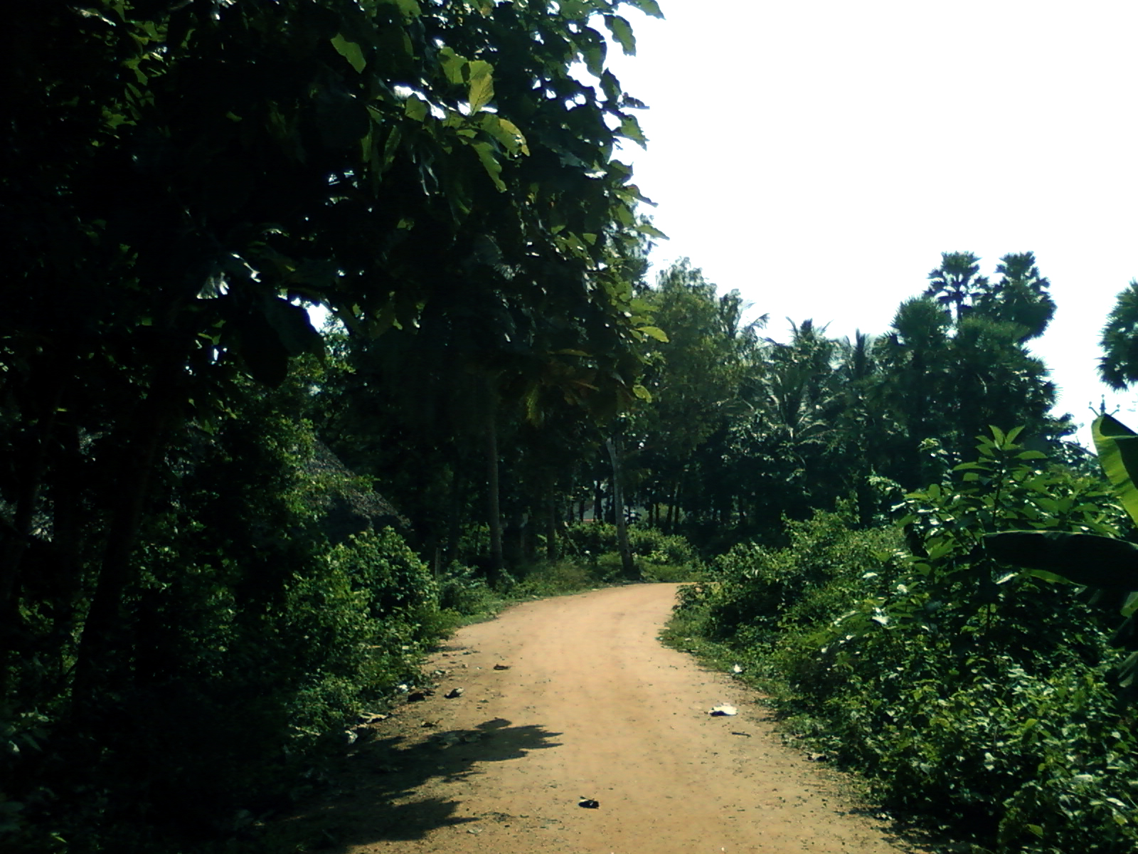 Rural dirt road at Peddipalem village in Visakhapatnam district